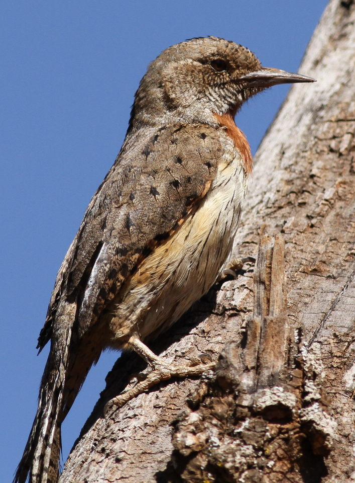 Red-throated Wryneck, Jynx ruficollis at Rietvlei Nature Reserve, Gauteng, South Africa